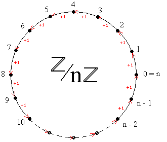 Made by Romero Schmidtke